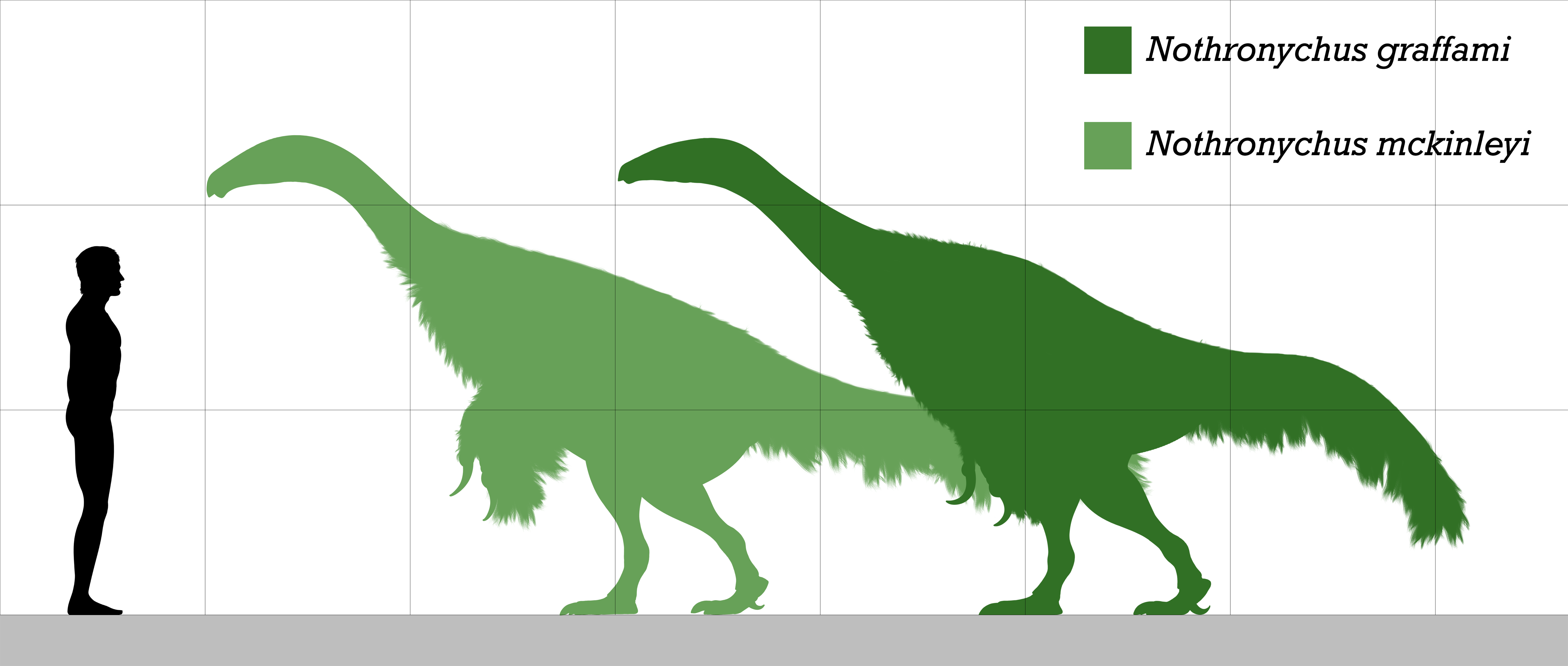 Size comparison between the two known species from the genus of therizinosaurids Nothronychus to a 1.8 m (5.9 ft) tall male human. Both N. mckinleyi and N. graffami were about the same size, 4.2 m (14 ft) in length and weighing around 800 kg (1,800 lb).[1] ________________________________________________________________________________________________________________________________